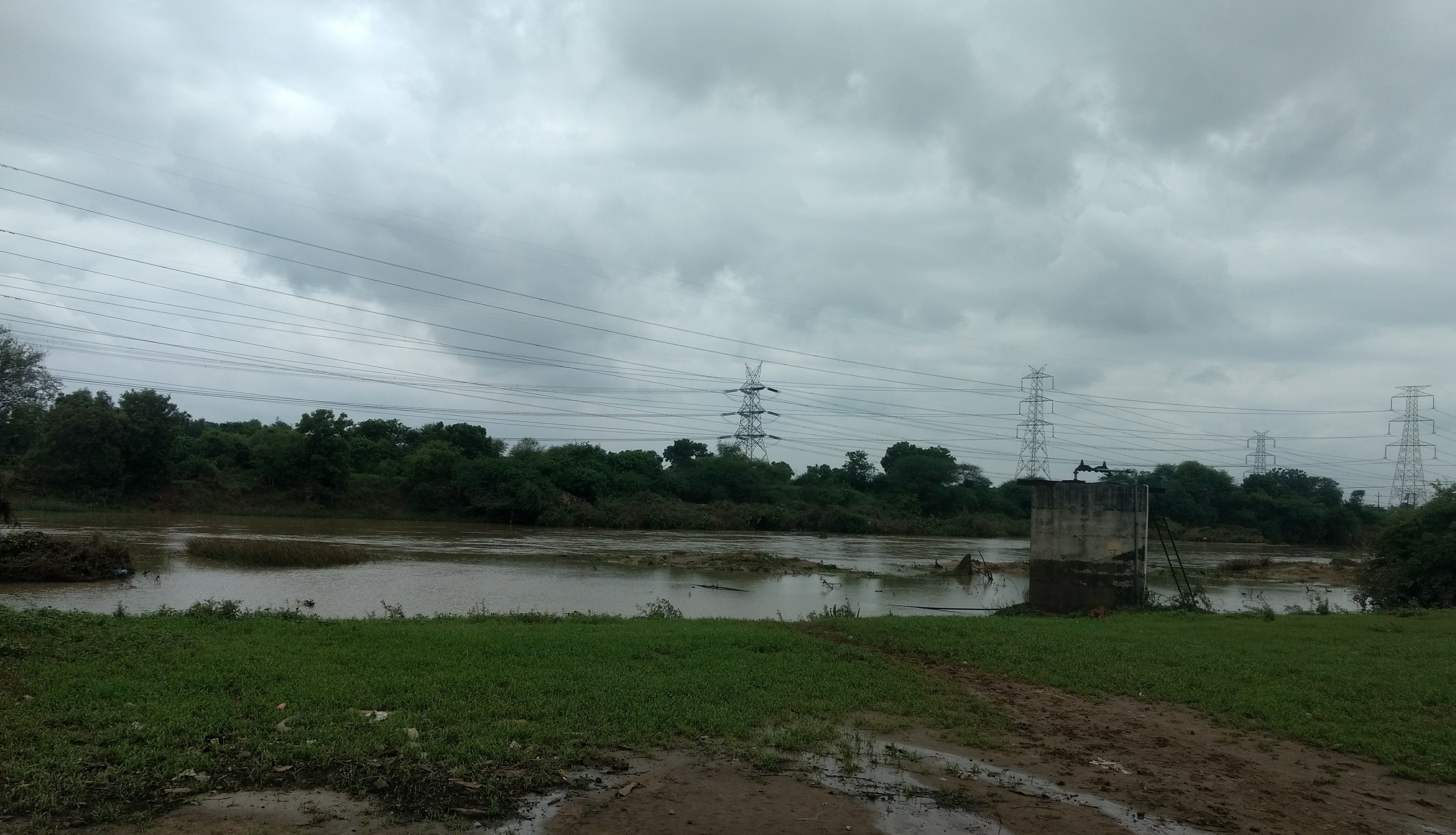 Erai River, a tributary of Wardha river, flowing at Ambhora, near Ambhora, Urjanagar, Chandrapur. The picture is taken in monsoon.